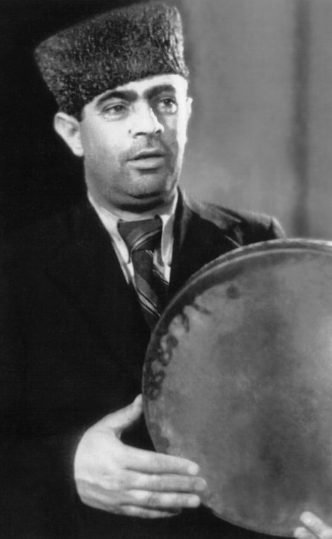 Khan Shushinski - singer, people's artist of Azerbaijan